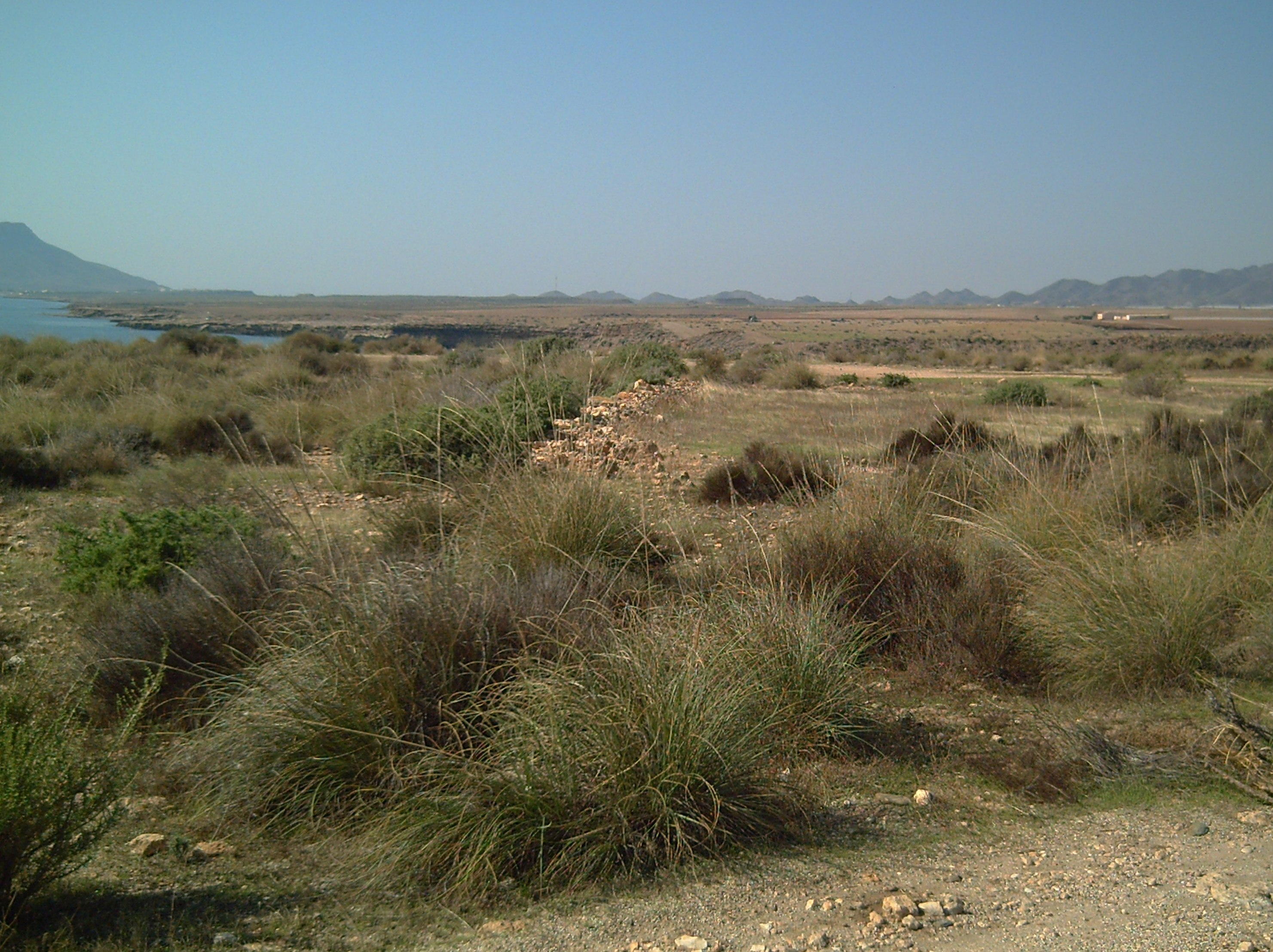 Coastline